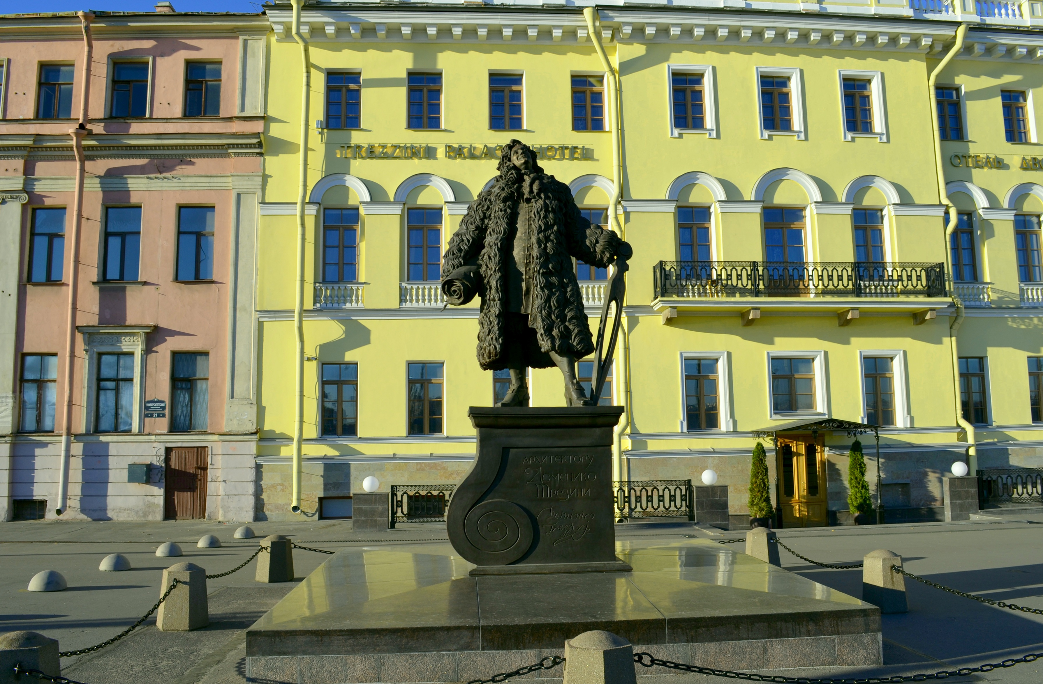 Trezini Monument: Universitetskaya Embankment, Vasileostrovsky District, St. Petersburg.